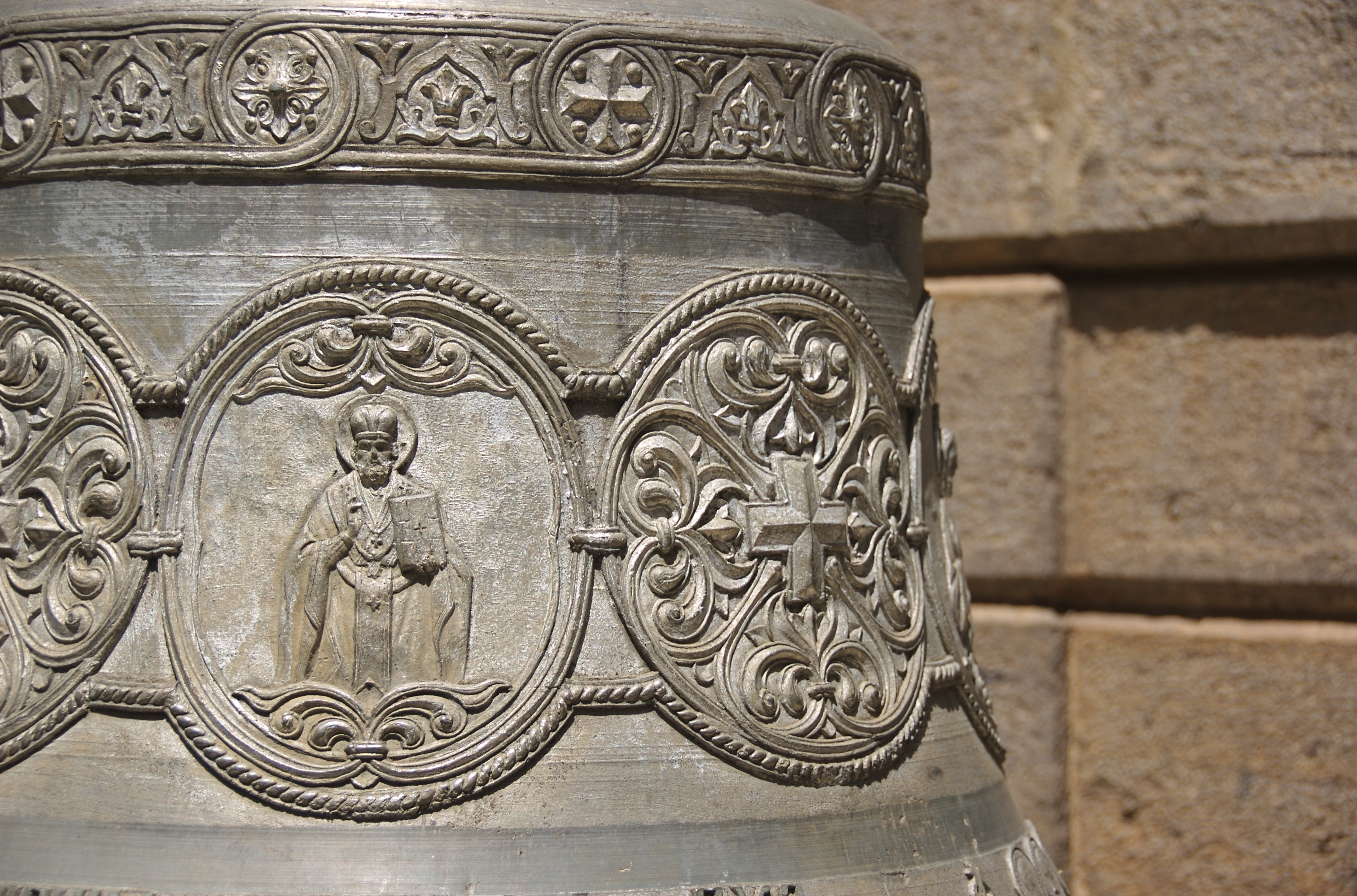 This massive bell was a gift from Czar Nicholas II, the last Czar of Russia. It is displayed on the grounds of St. George's Cathedral, Addis Ababa, Ethiopia.